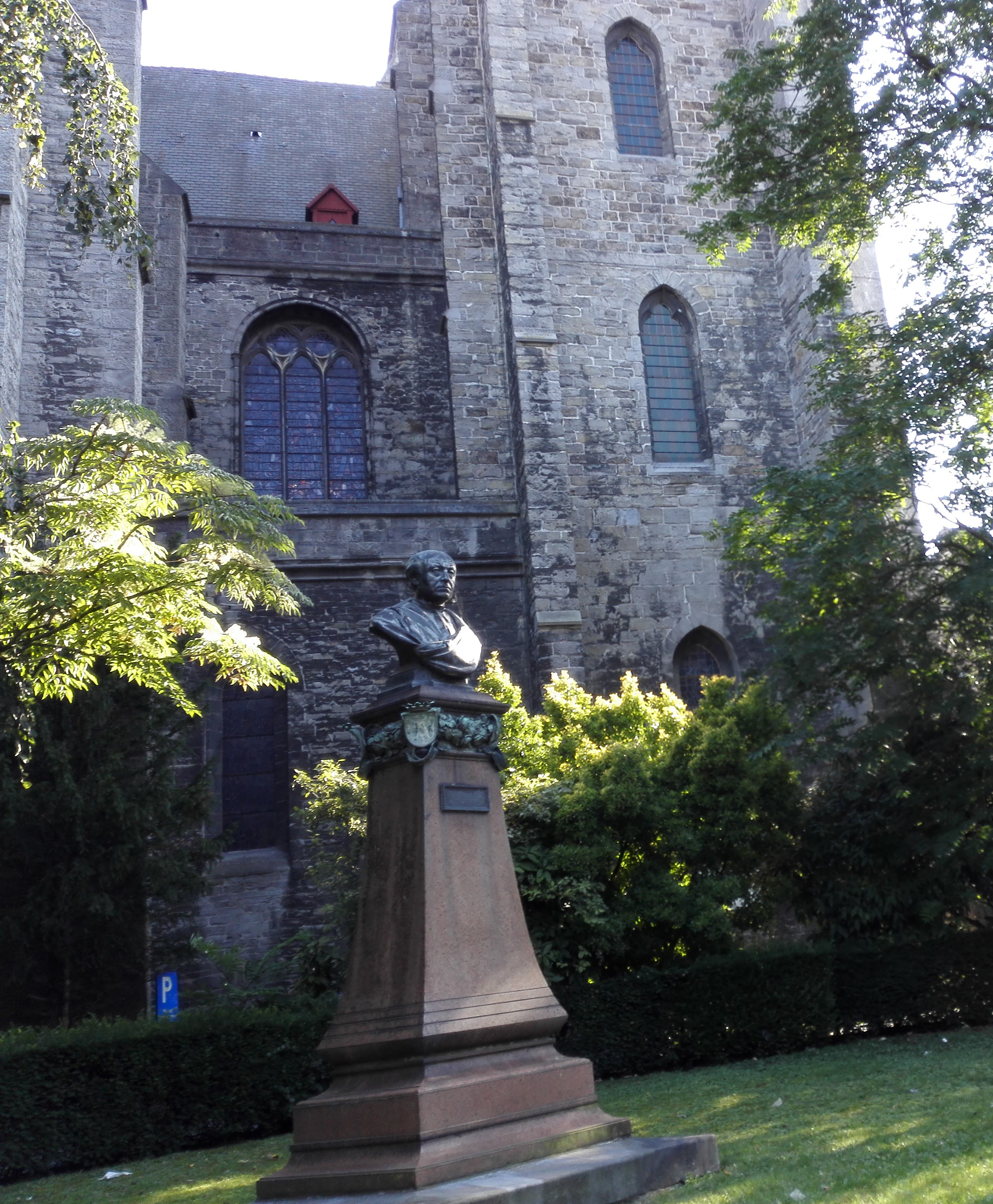 Statue of Guido Gezelle in Kortrijk